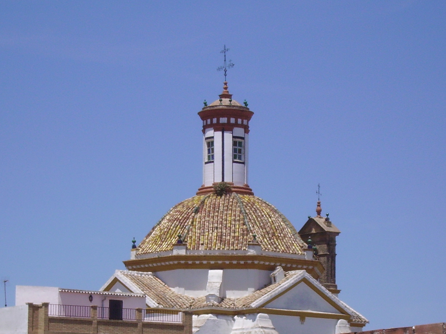 Dome of the hermitage of El Calvario, in Montalbán de Córdoba (Spain).